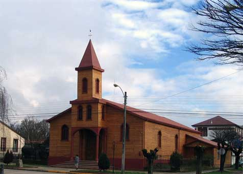 Parroquia San Enrique de Purén